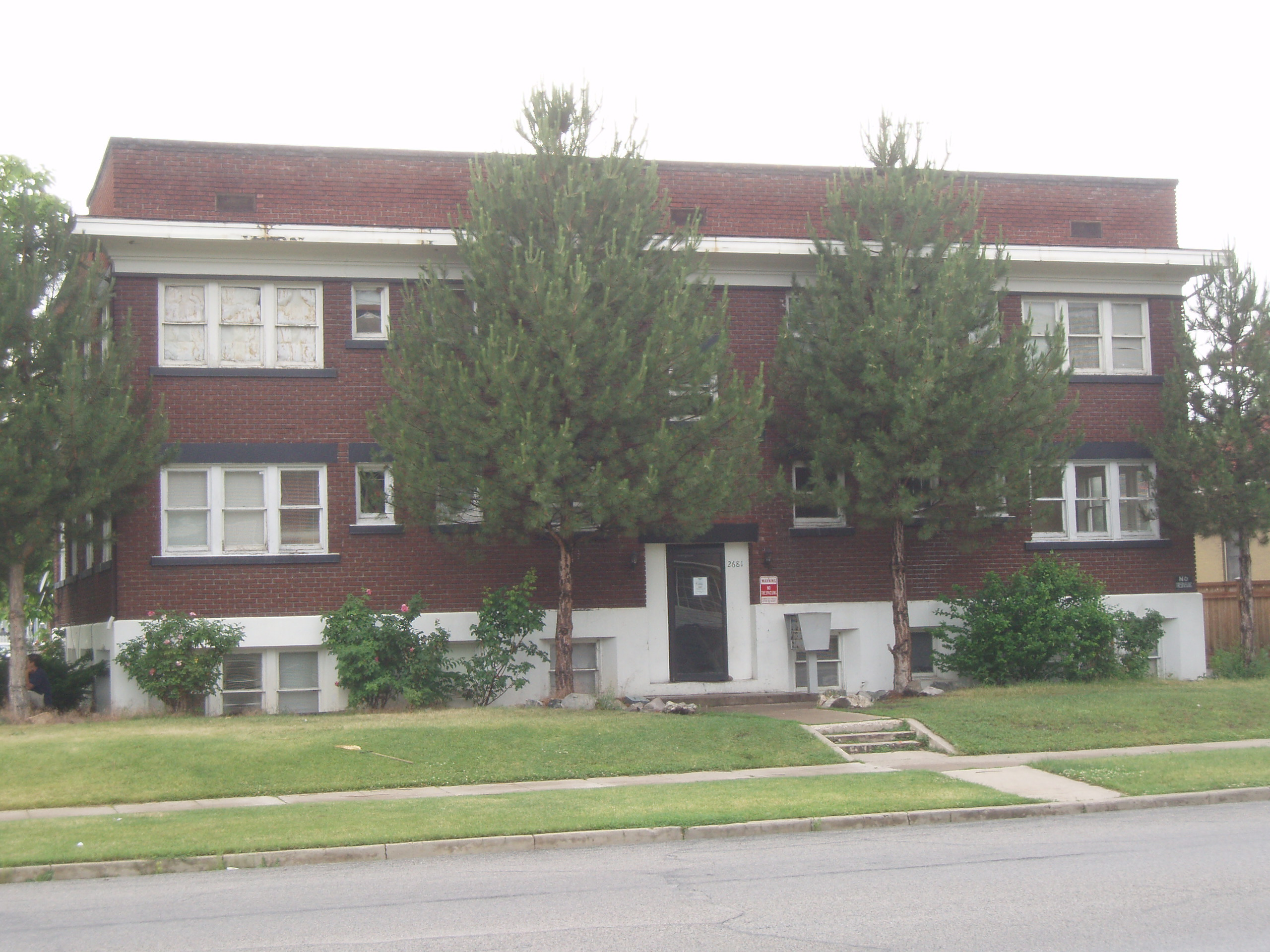 The Flowers Apartments, a historic building in Ogden, Utah, United States.